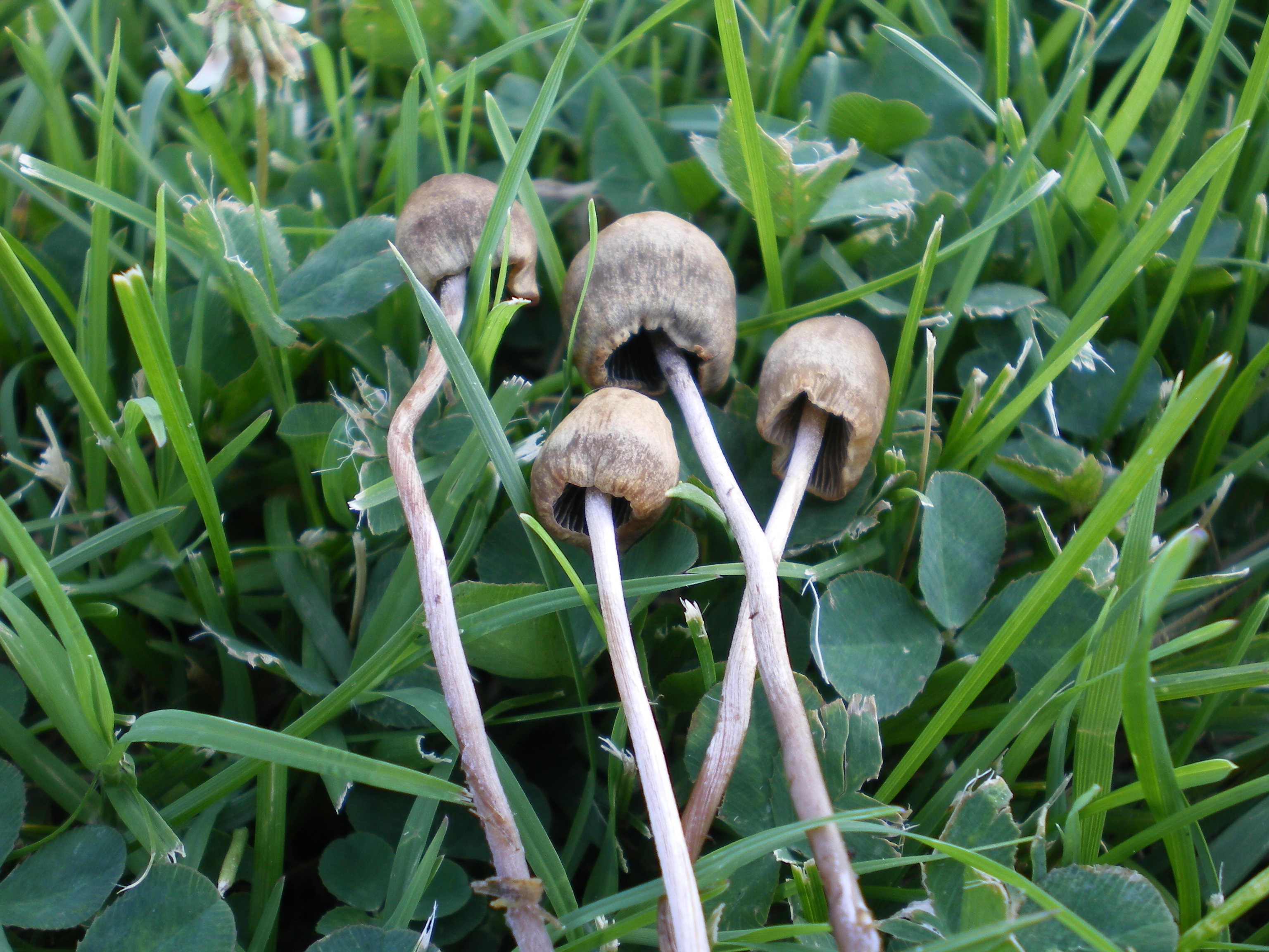 Panaeolopsis sp.